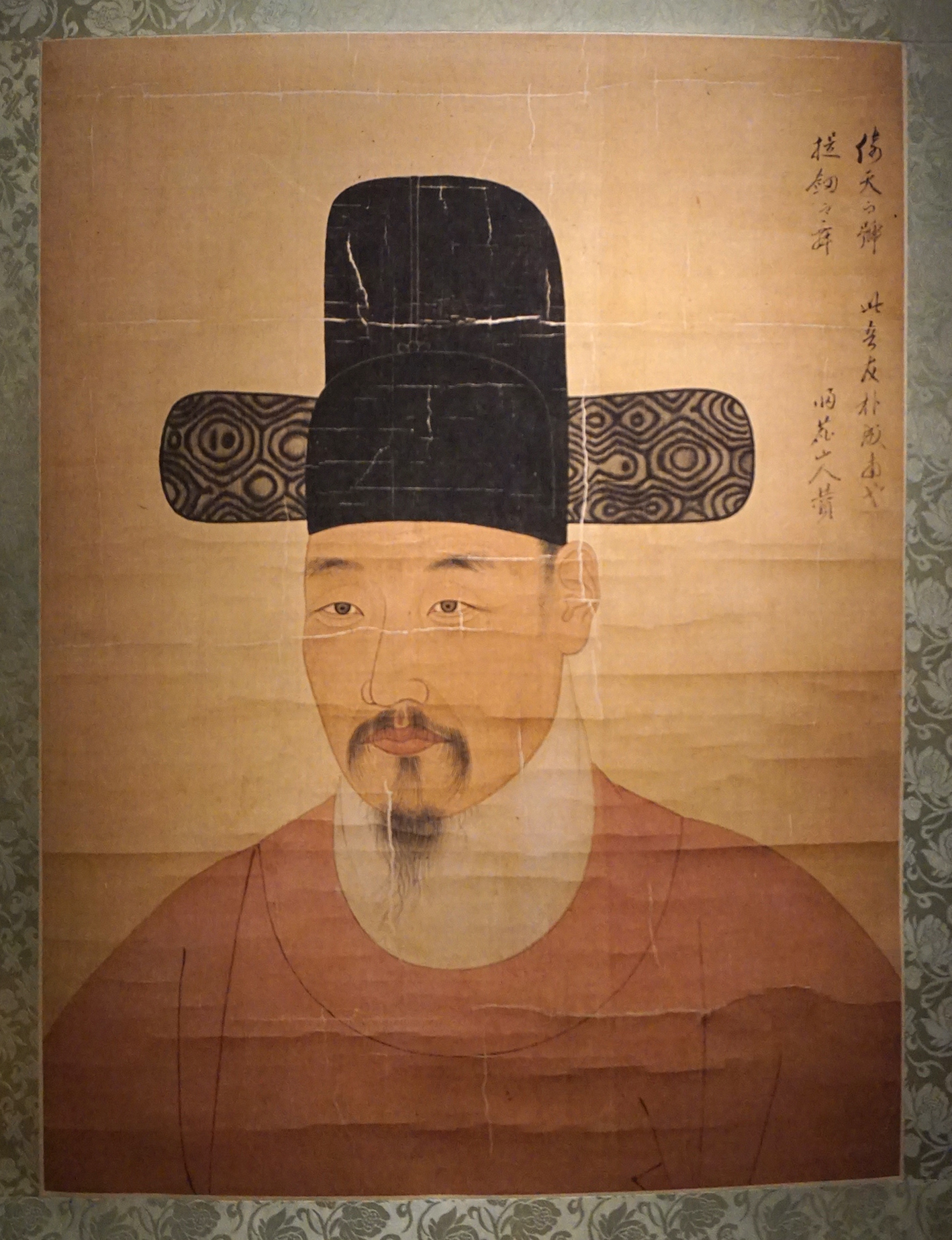 Portrait of Park Mun-su (1691-1756), famous for protecting the Korean people from corrupt royal officials. Vertical roll, ink and colour on silk. Treasure of South Korea No. 1189-1. National Museum of Korea.